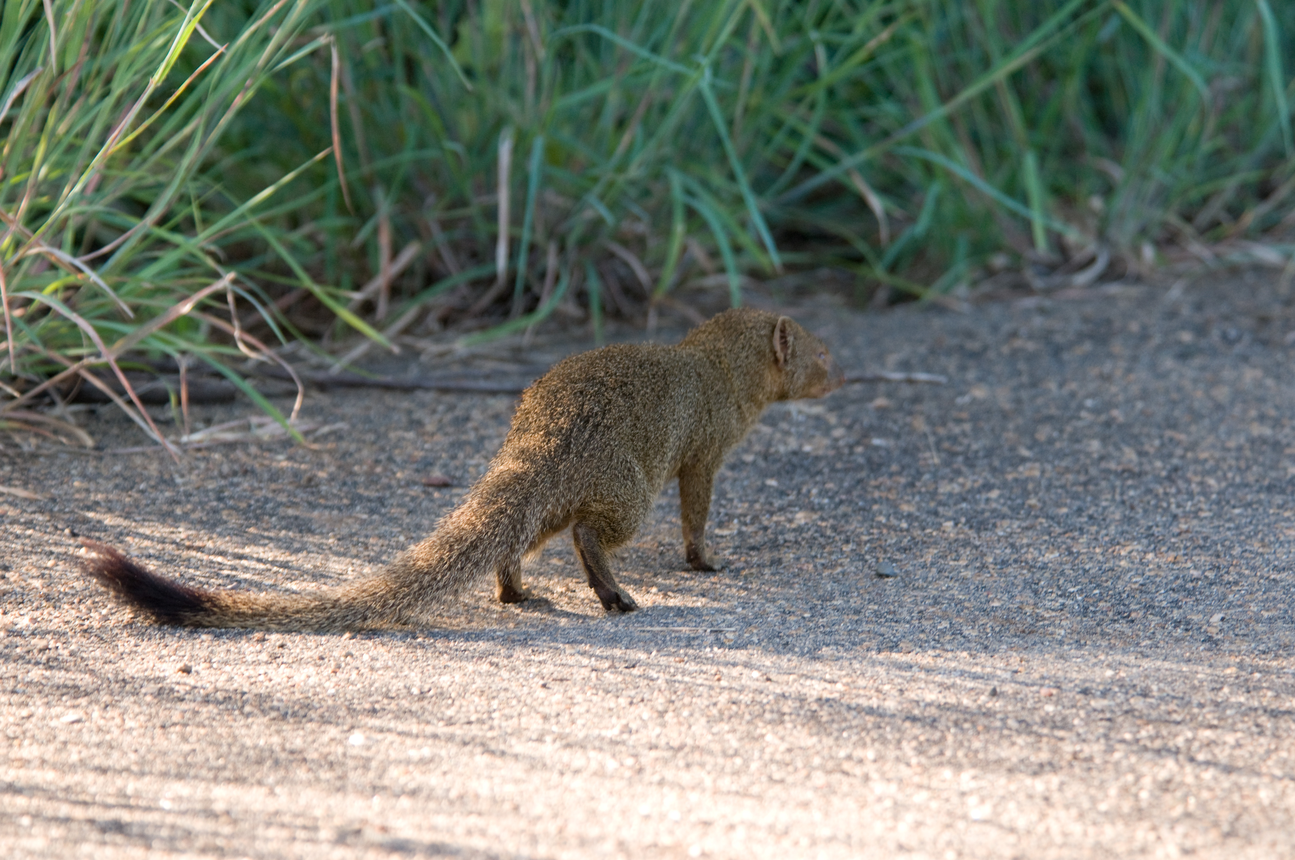 Slender Mongoose (Galerella sanguinea). Also called Black-tipped Mongoose - it's easy to see why! Dysmorodrepanis 01:29, 29 May 2008 (UTC)